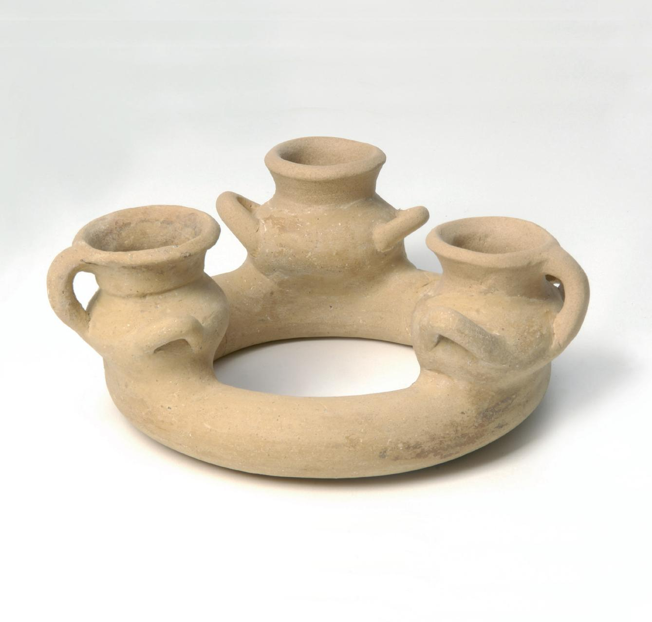 Kernoi founded at Emporion